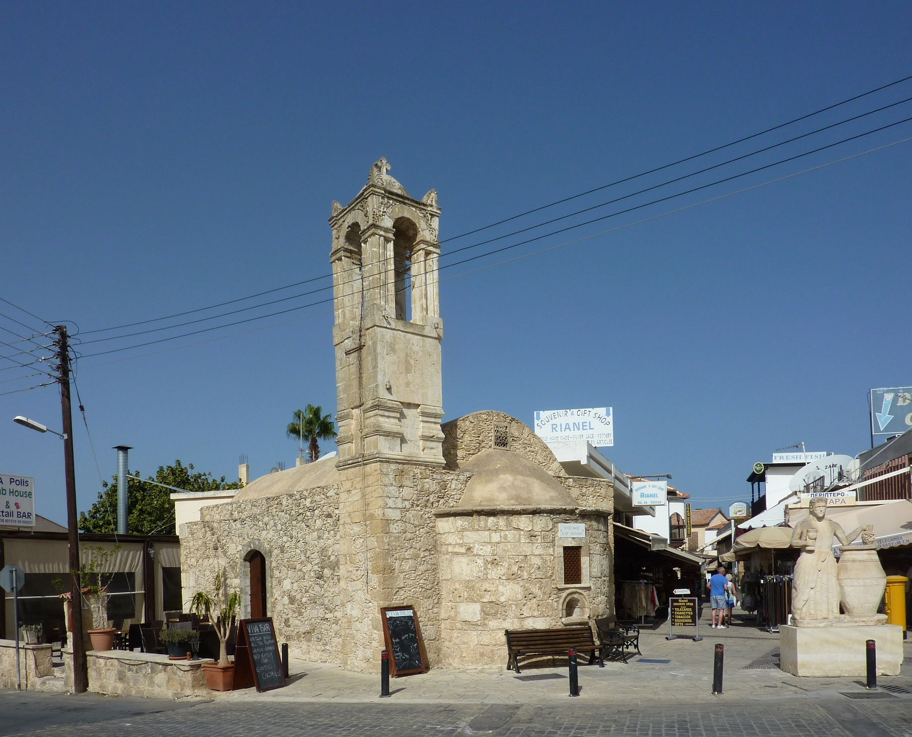 Agios Andronikos, Polis (Cyprus)